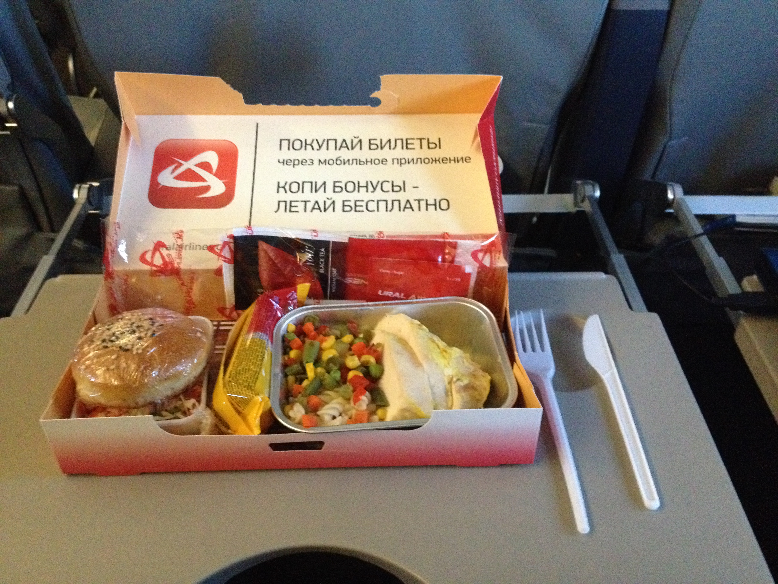 The Ural Airlines meal onboard